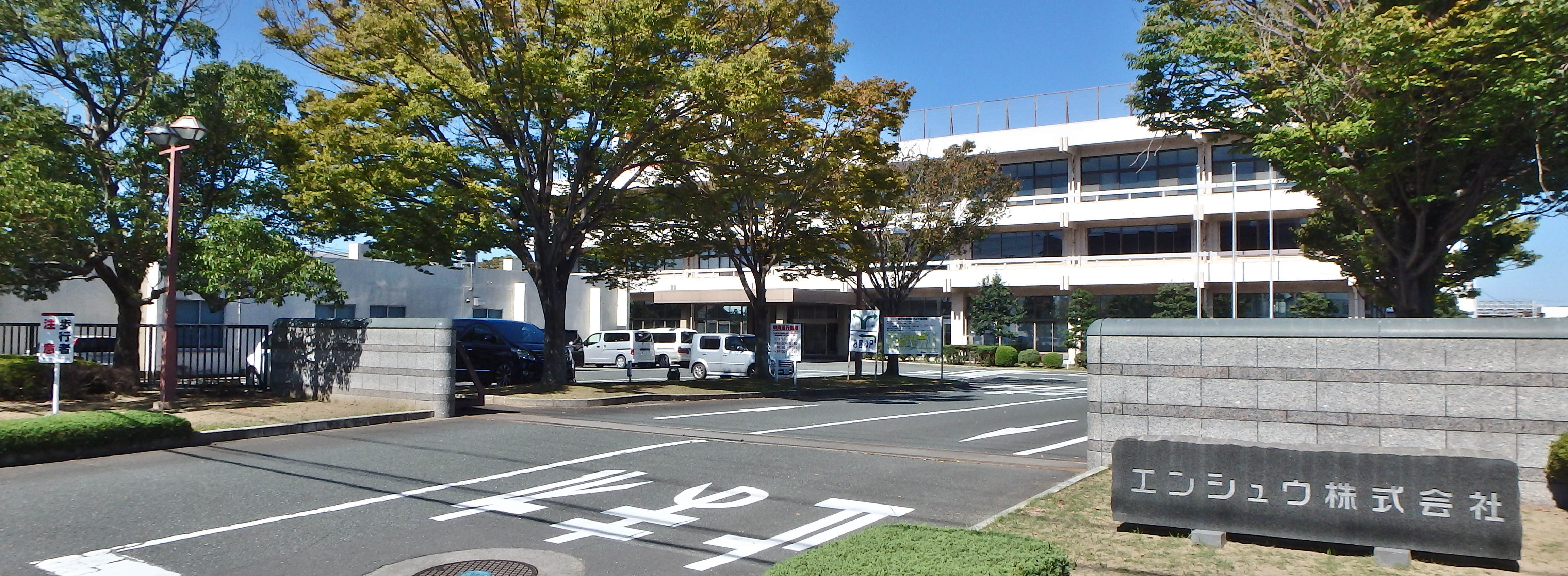 Headquarters of ENSHU Limited ,Shizuoka prefecture,Japan